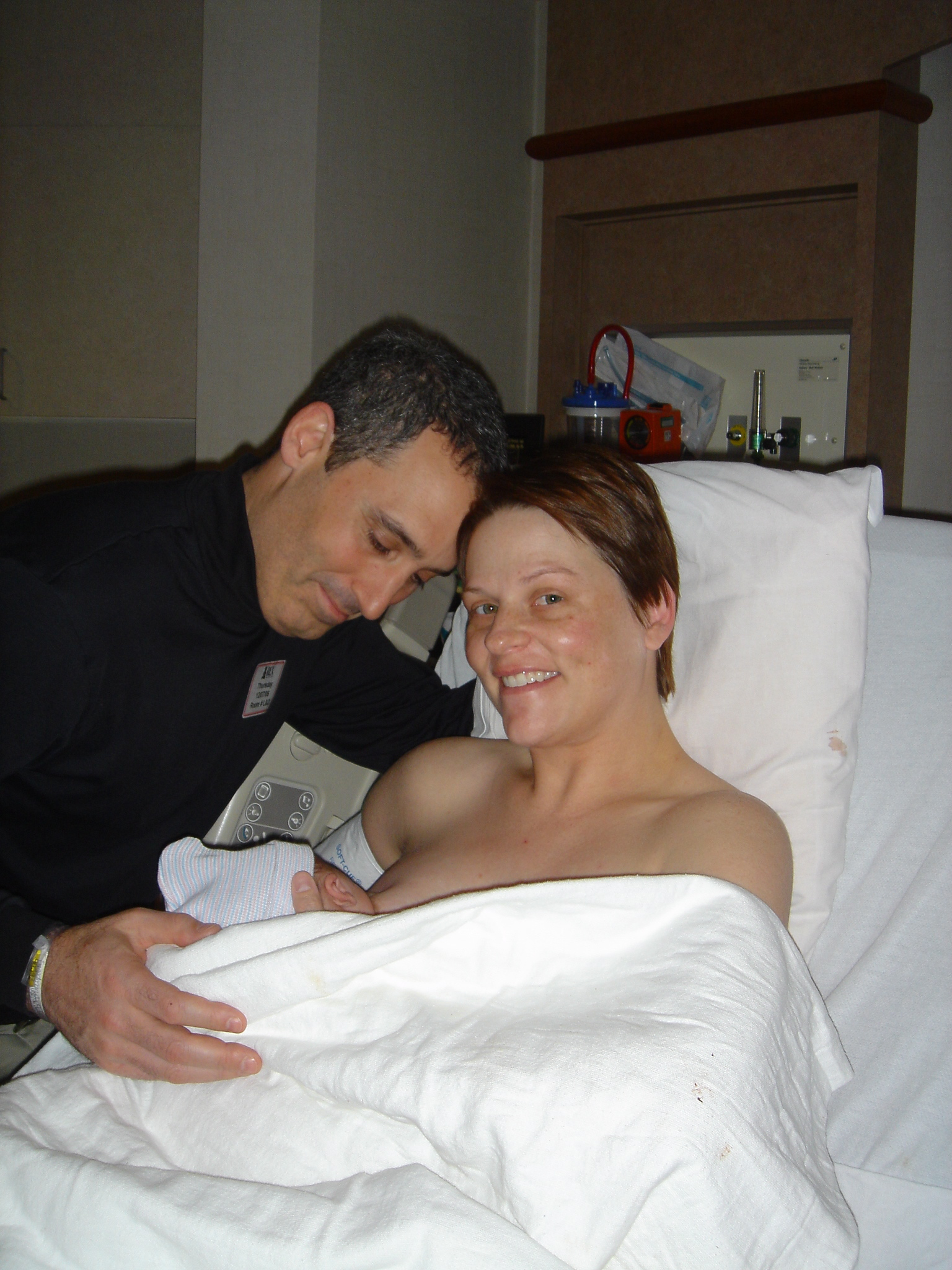 This is amazing. Babies breast feed almost immediately, and that in turn stops bleeding in the mom. Nature is a beautiful balance.